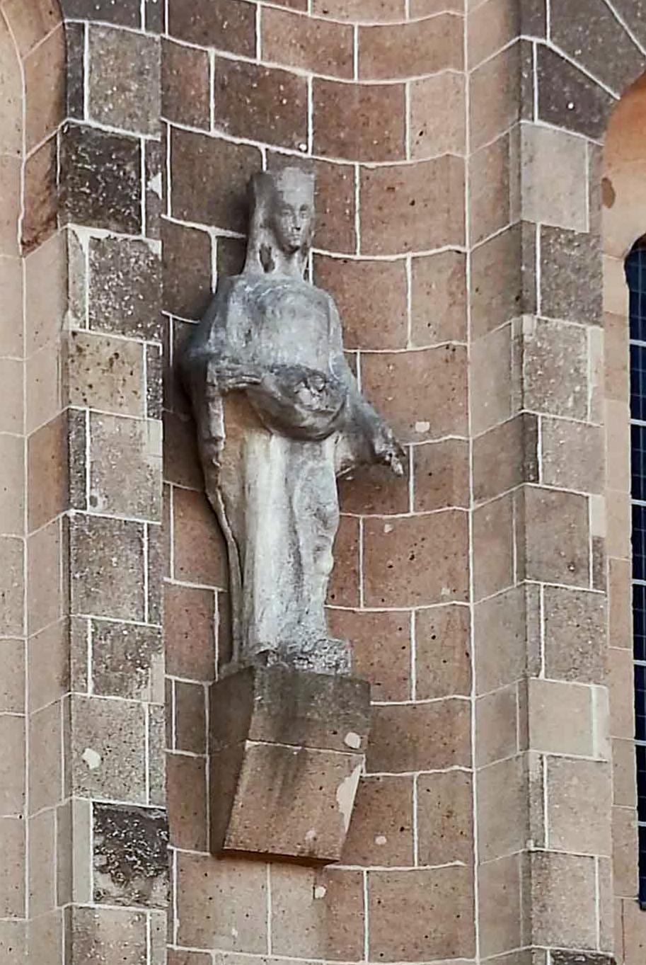 sdr Elisabeth von Josef Krautwald an der Elisabeth Kirche Rheine